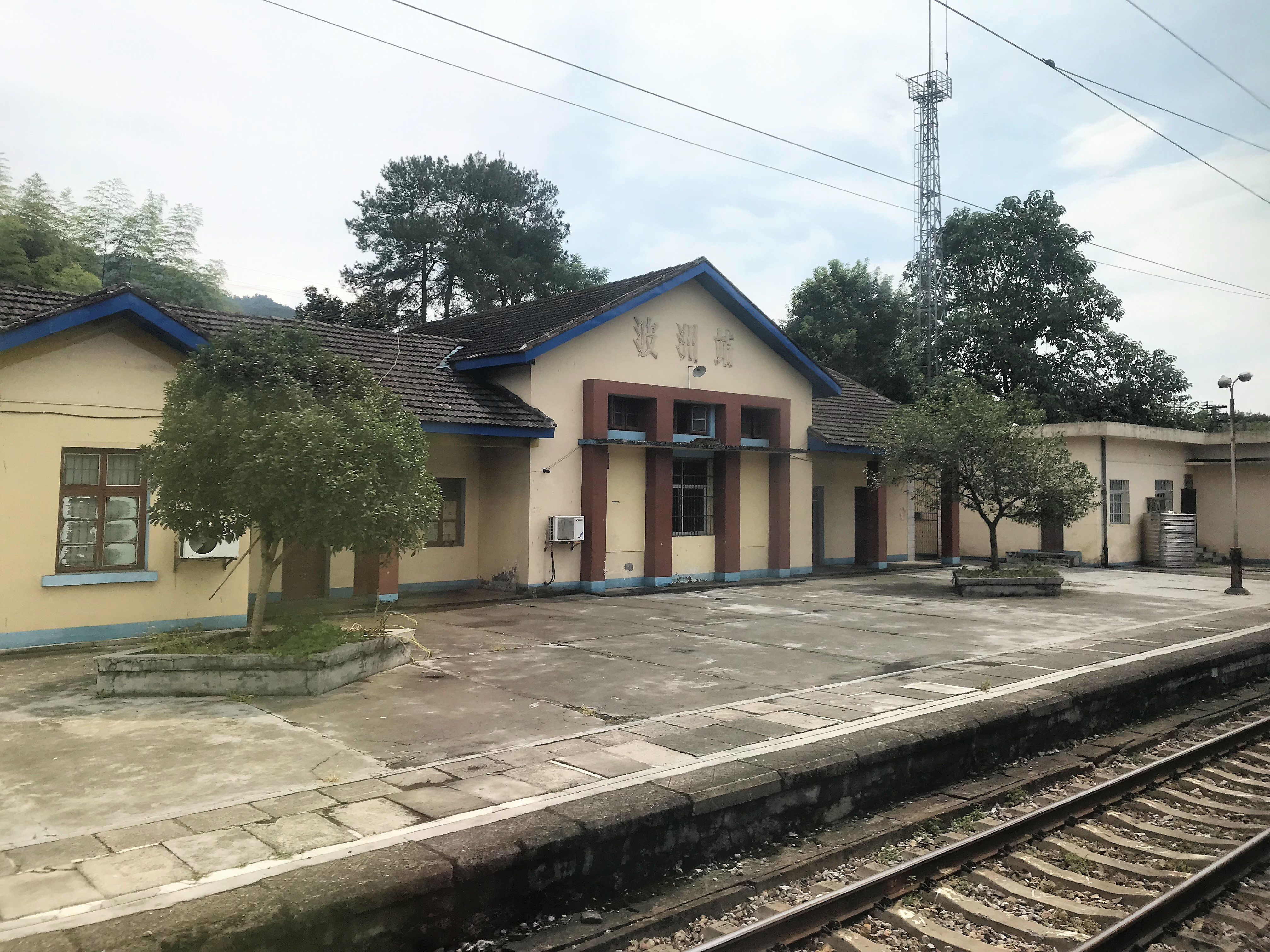 Very stylish station building.